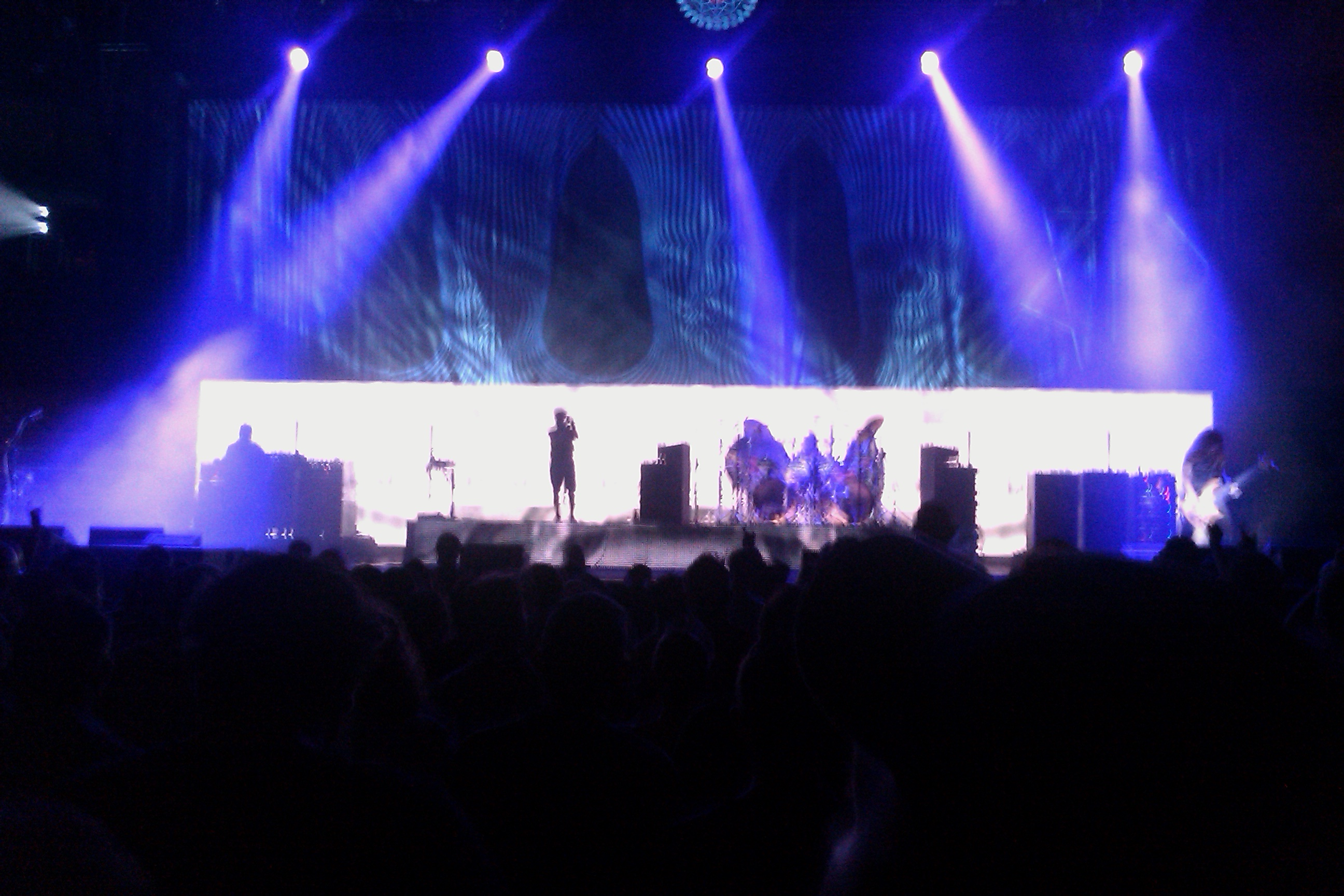 Tool performing in Houston at the Houston Toyota Center